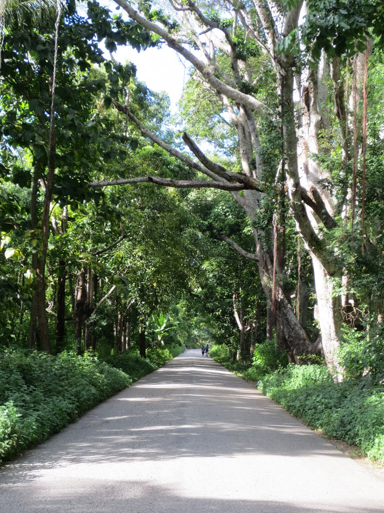 Mature trees along the Baucau-Ossu road